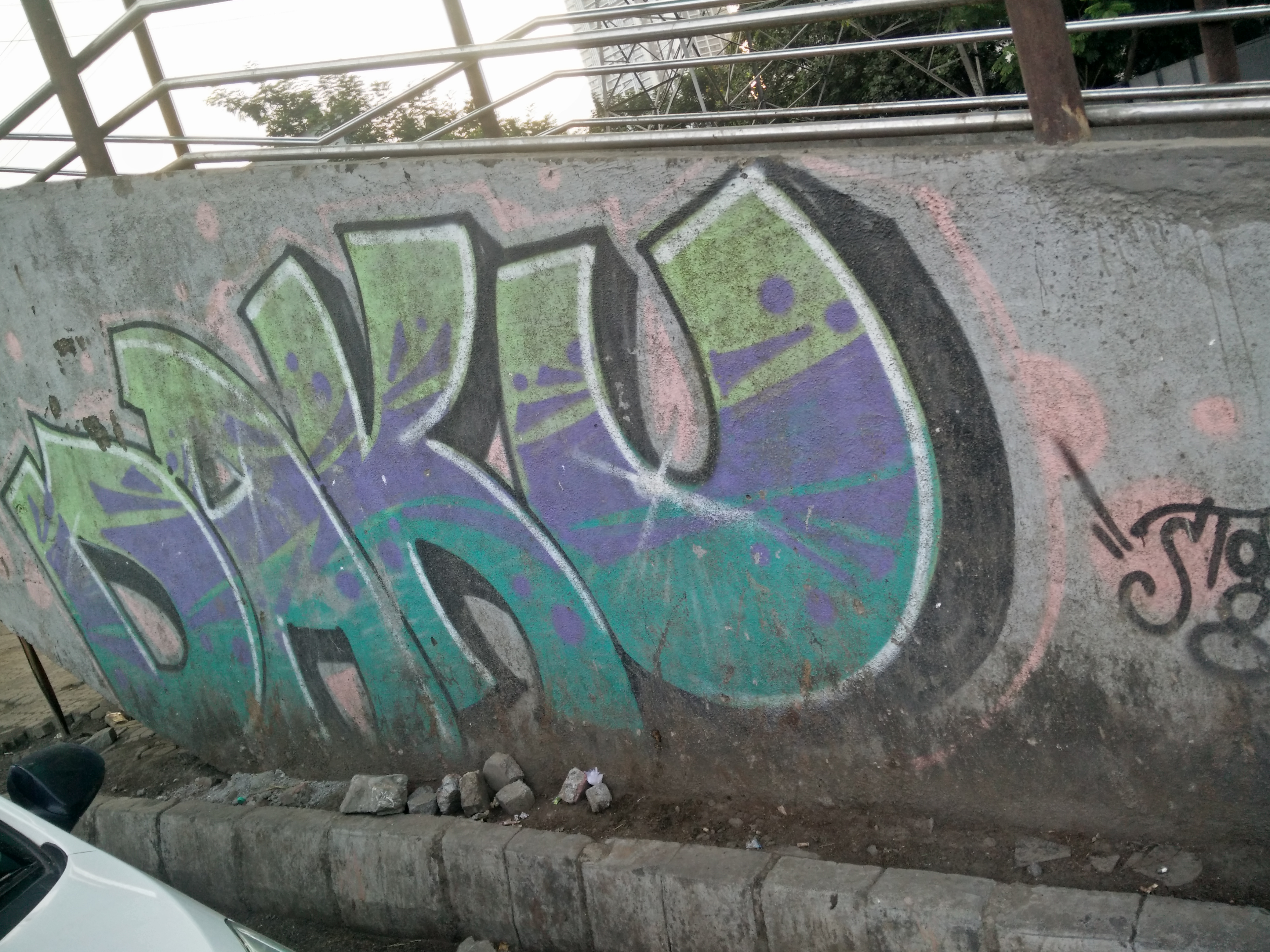 Graffiti of Daku in Goregaon, Mumbai